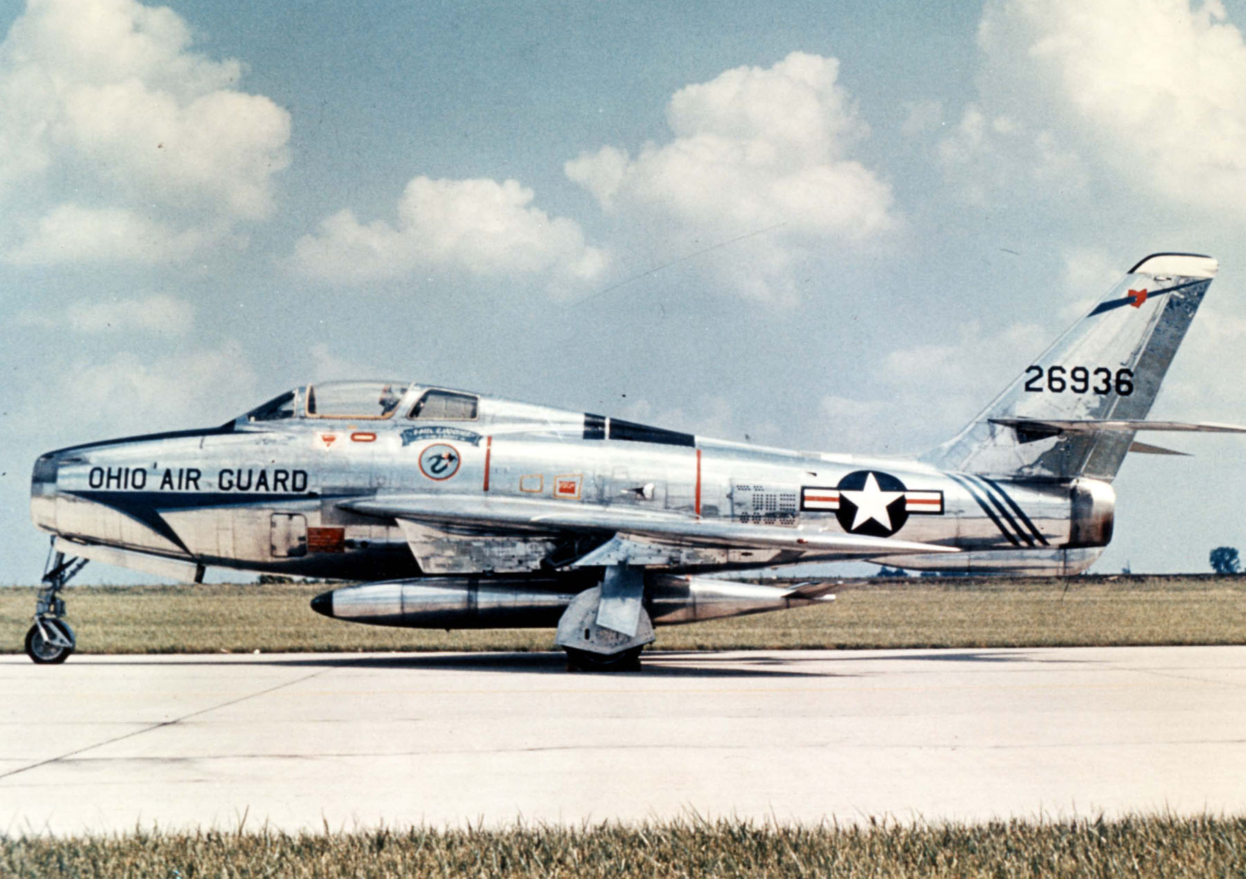 A Republic F-84F-55-RE Thunderstreak (s/n 52-6936) of the Ohio Air National Guard.